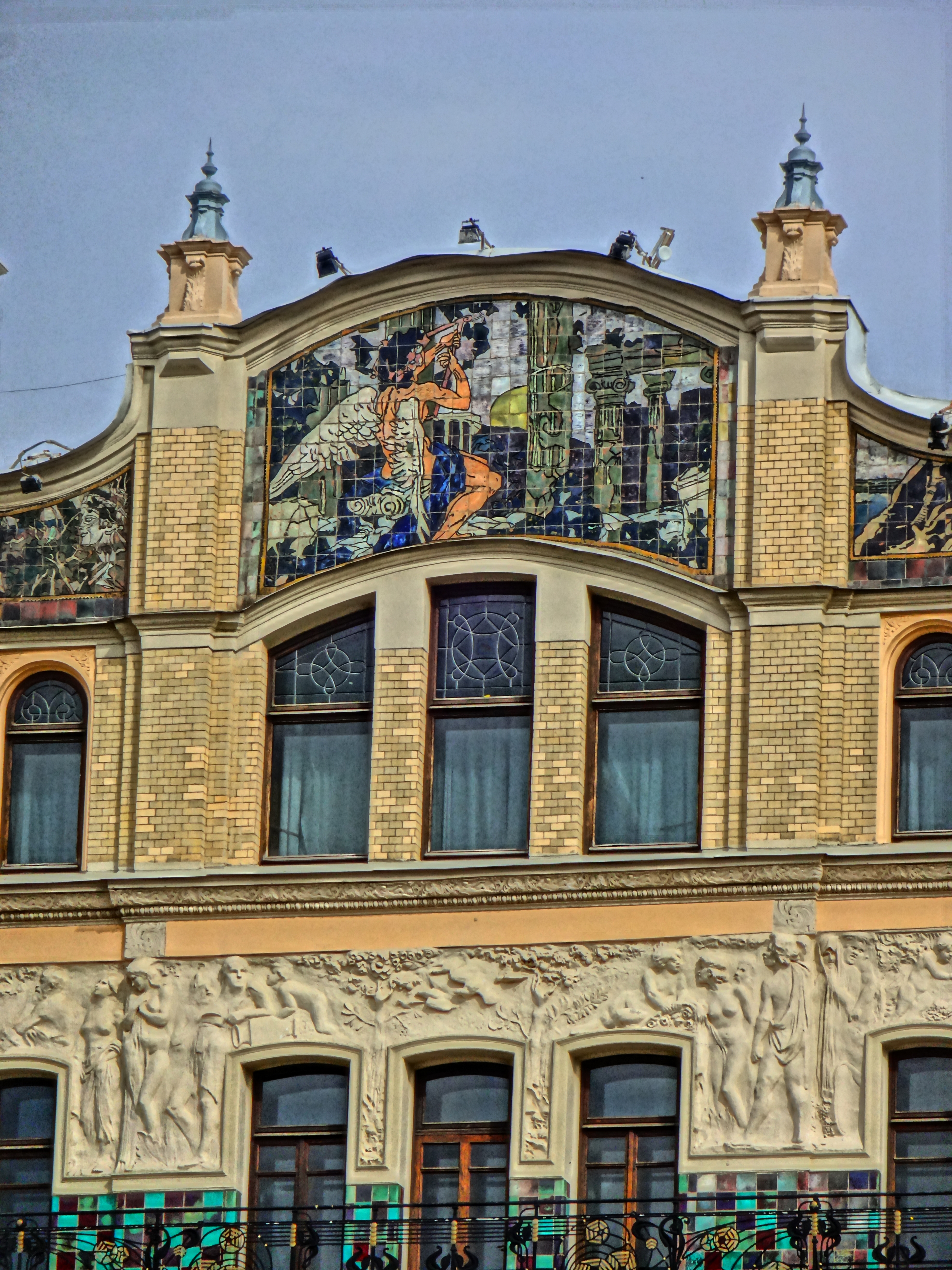 Moscow Metropol Hotel